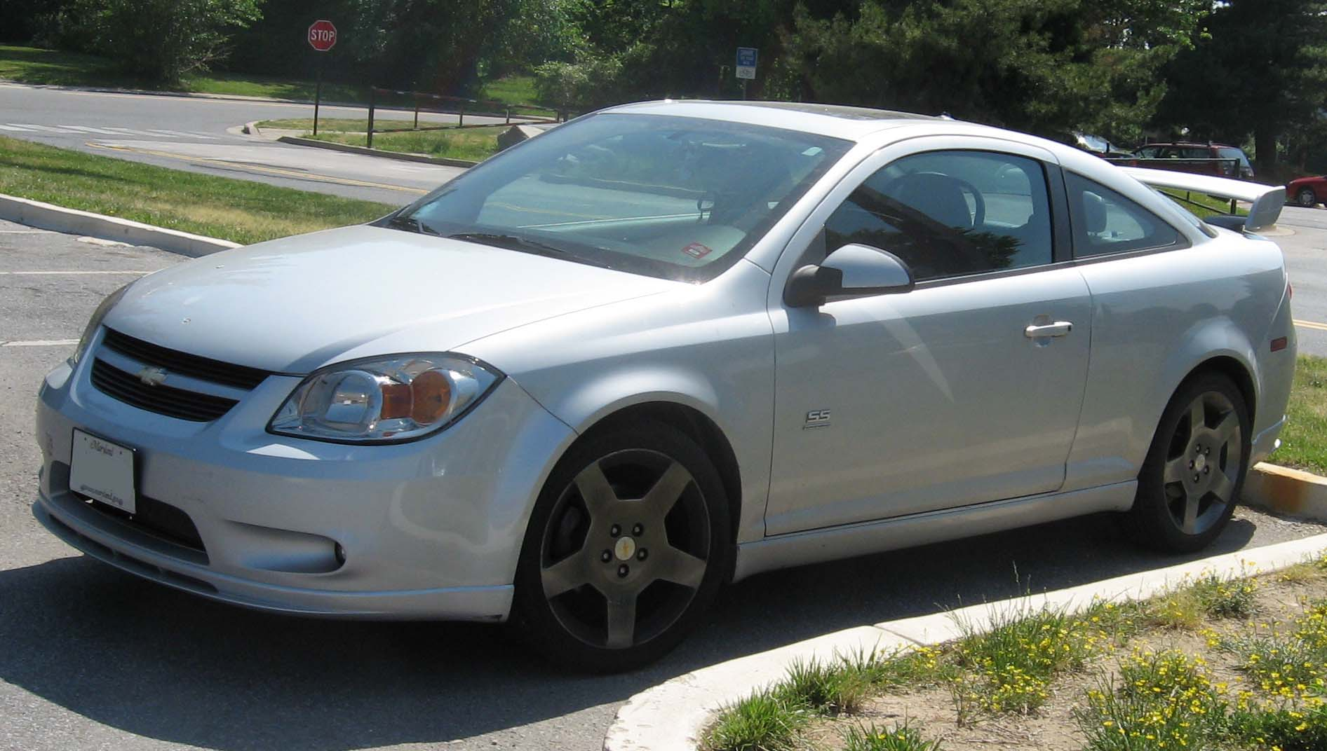 2005-2007 Chevrolet Cobalt photographed in USA.